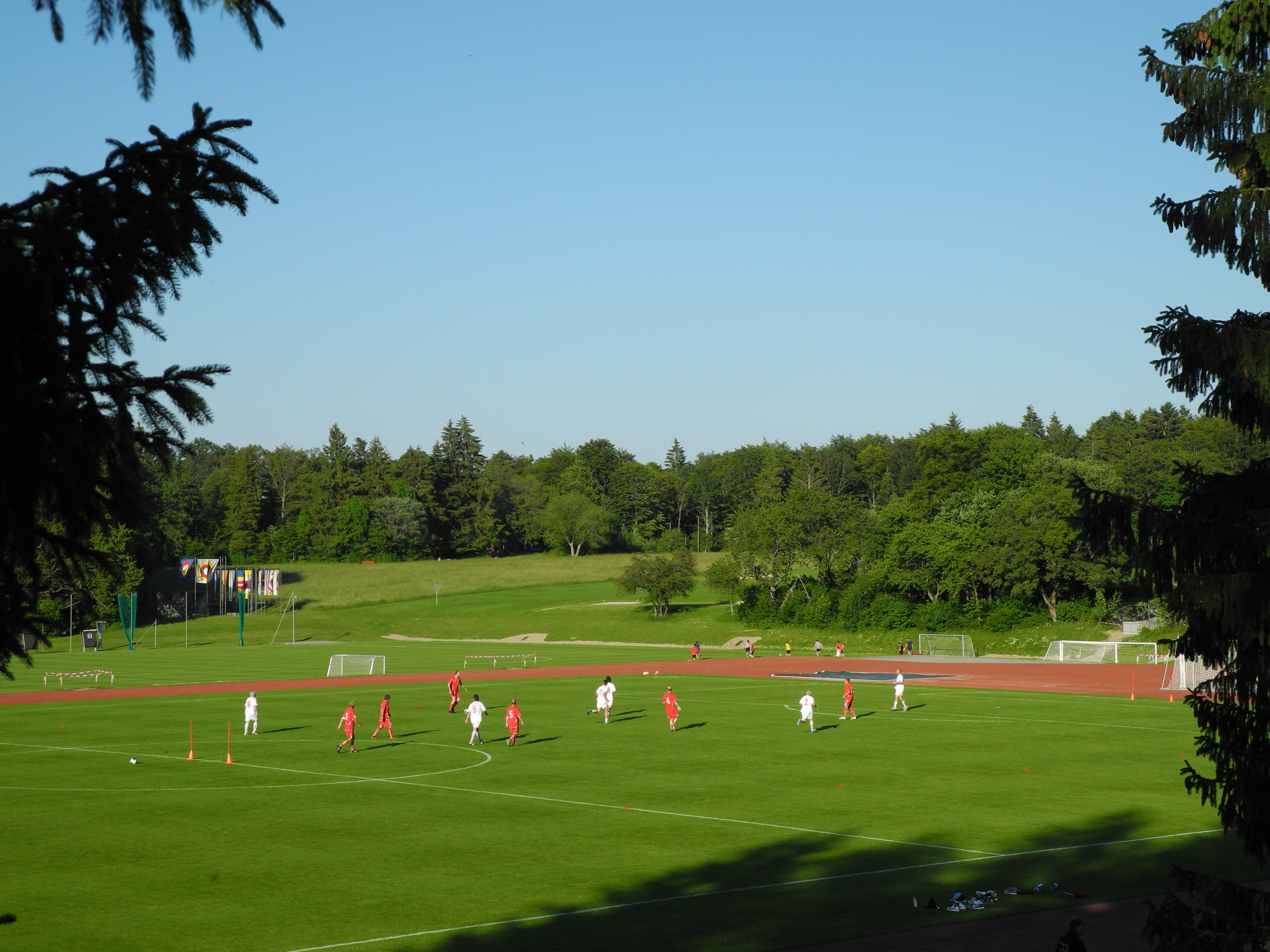 soccertraining in magglingen